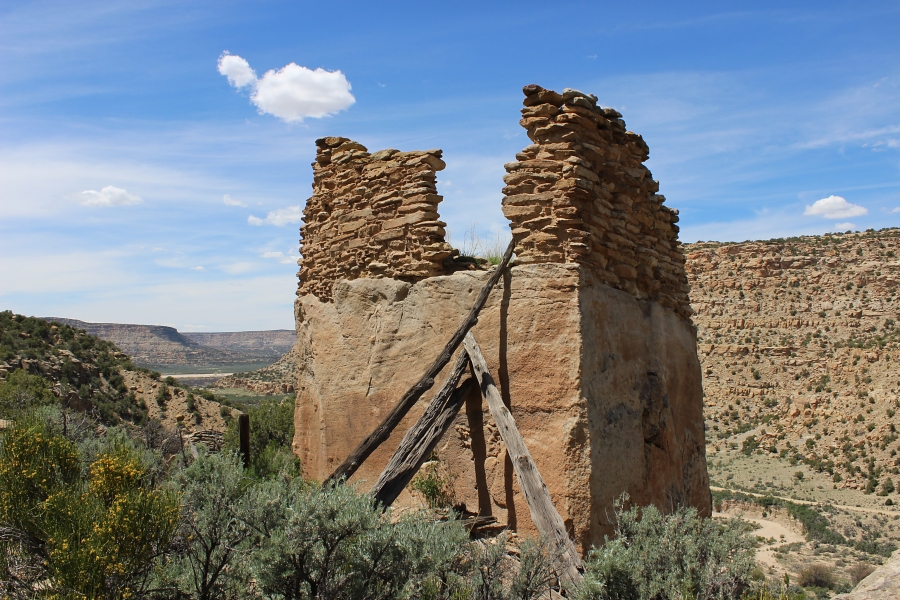 Crow Canyon Pueblito Ruin